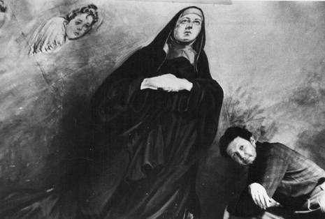 Fresco de Santa Rita de Casia por José Suárez Olvera, cúpula en la Iglesia de Santa Rita de Casia, México D.F.